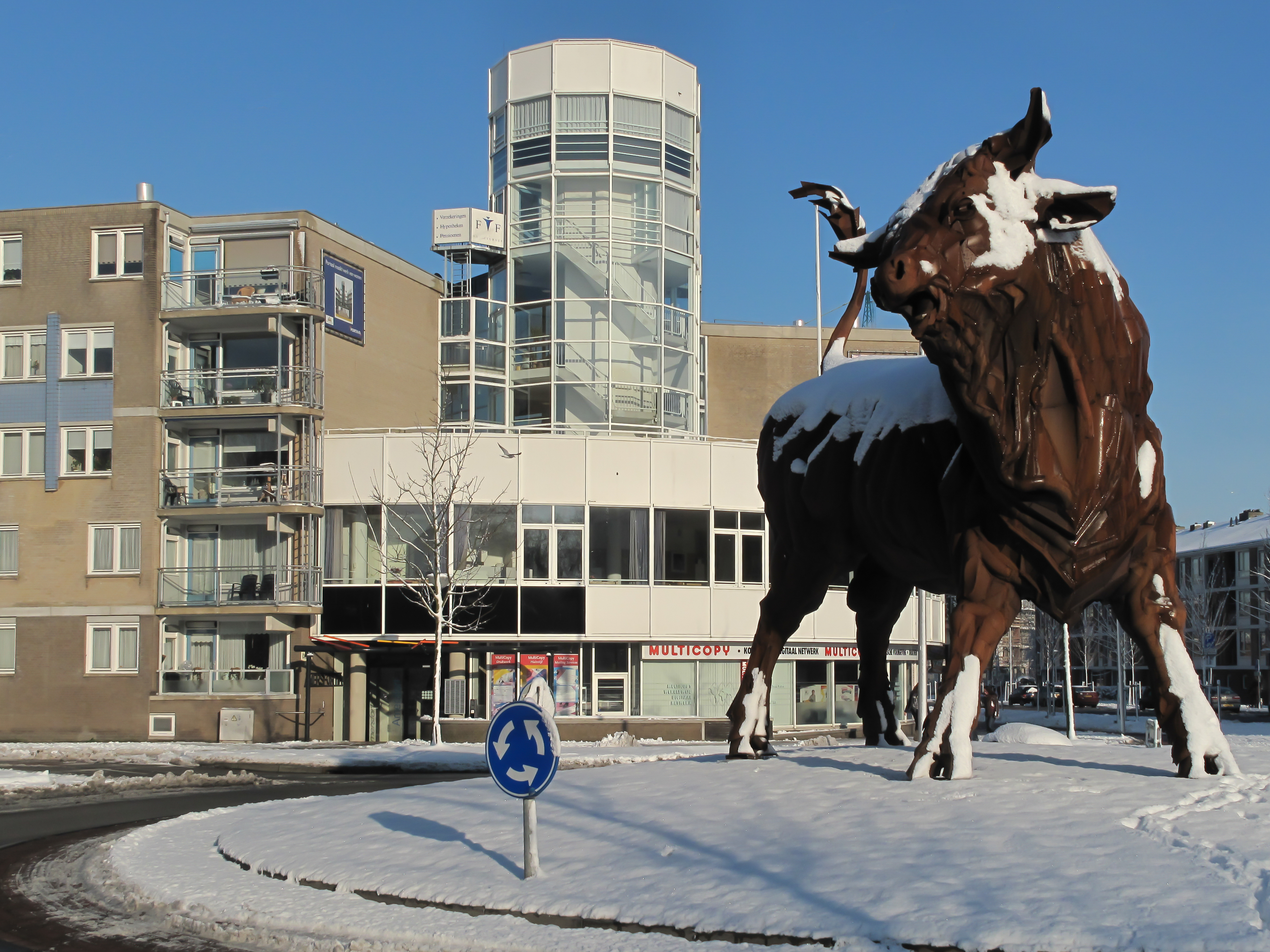 Amersfoort, bull on the traffic square near the Kamp